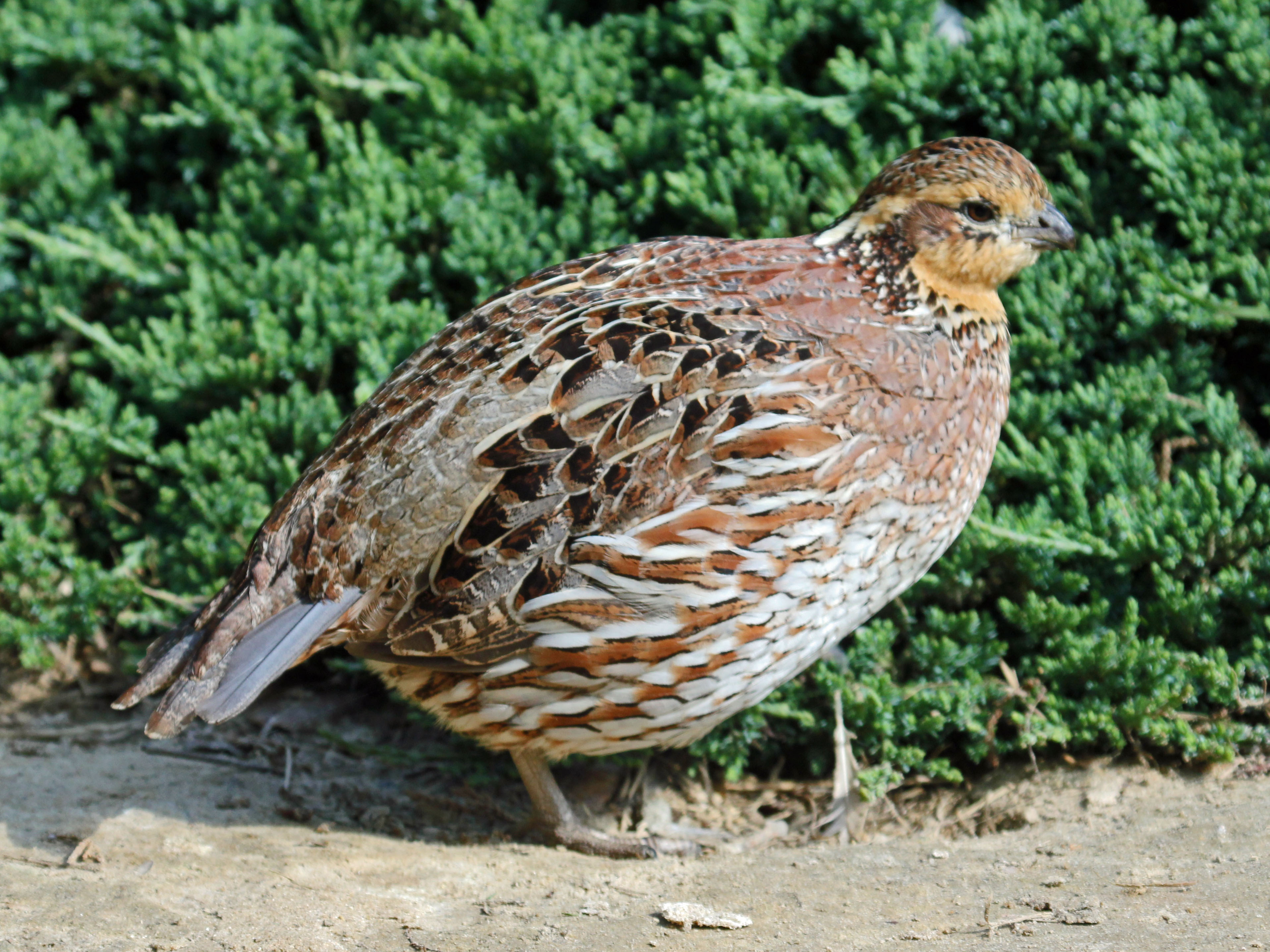 Female Northern Bobwhite (Colinus virginianus) - Sylvan Heights Waterfowl Park, North Carolina